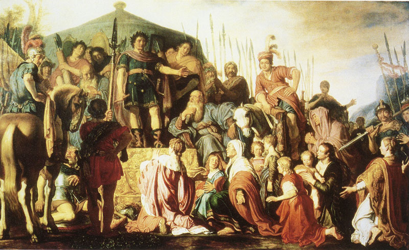 Coriolanus and the Roman matrons, Pieter Lastman, 1622, Trinity College, Dublin